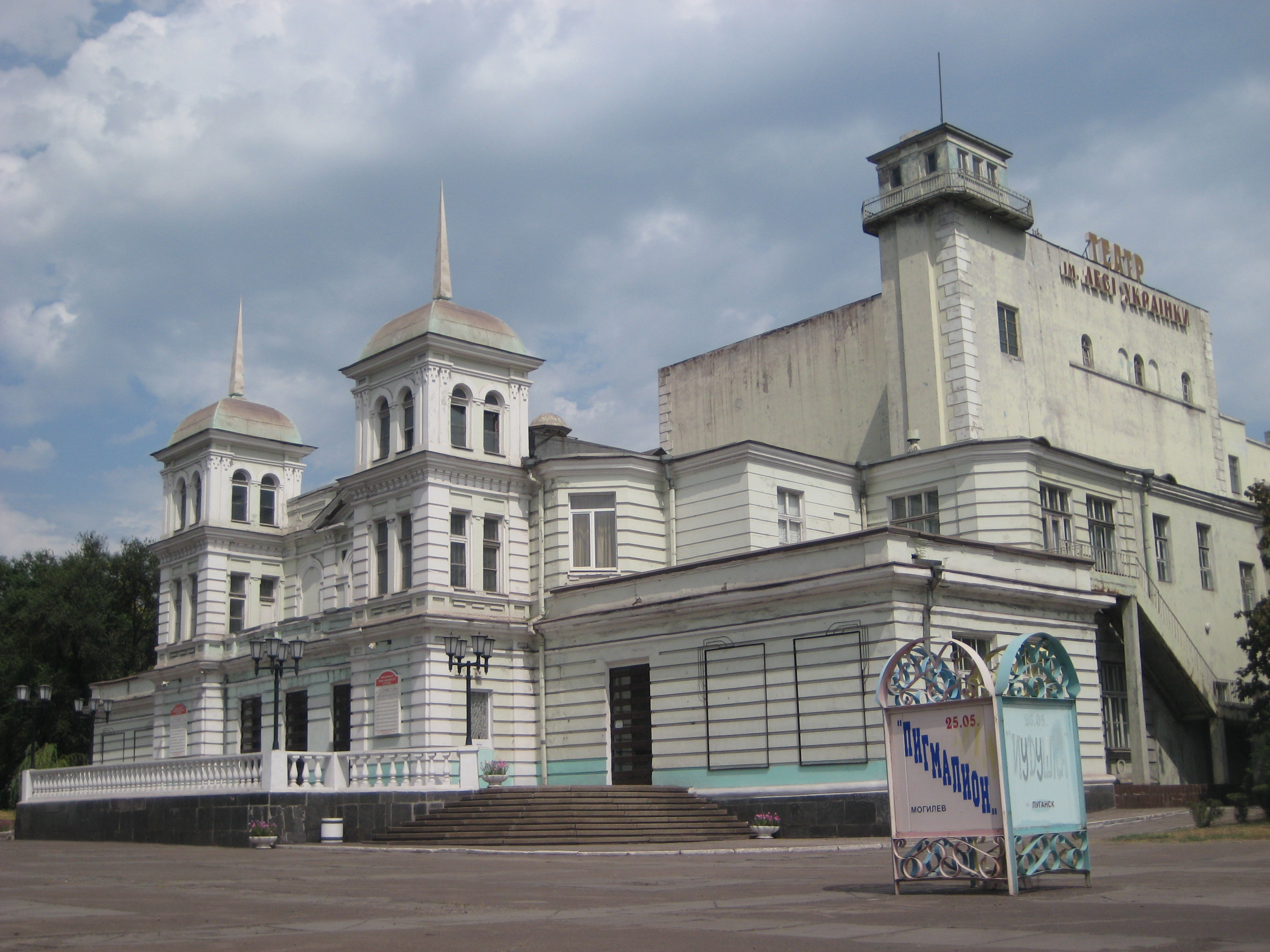 Drama Theater of Lesya Ukrainka, Kamianske